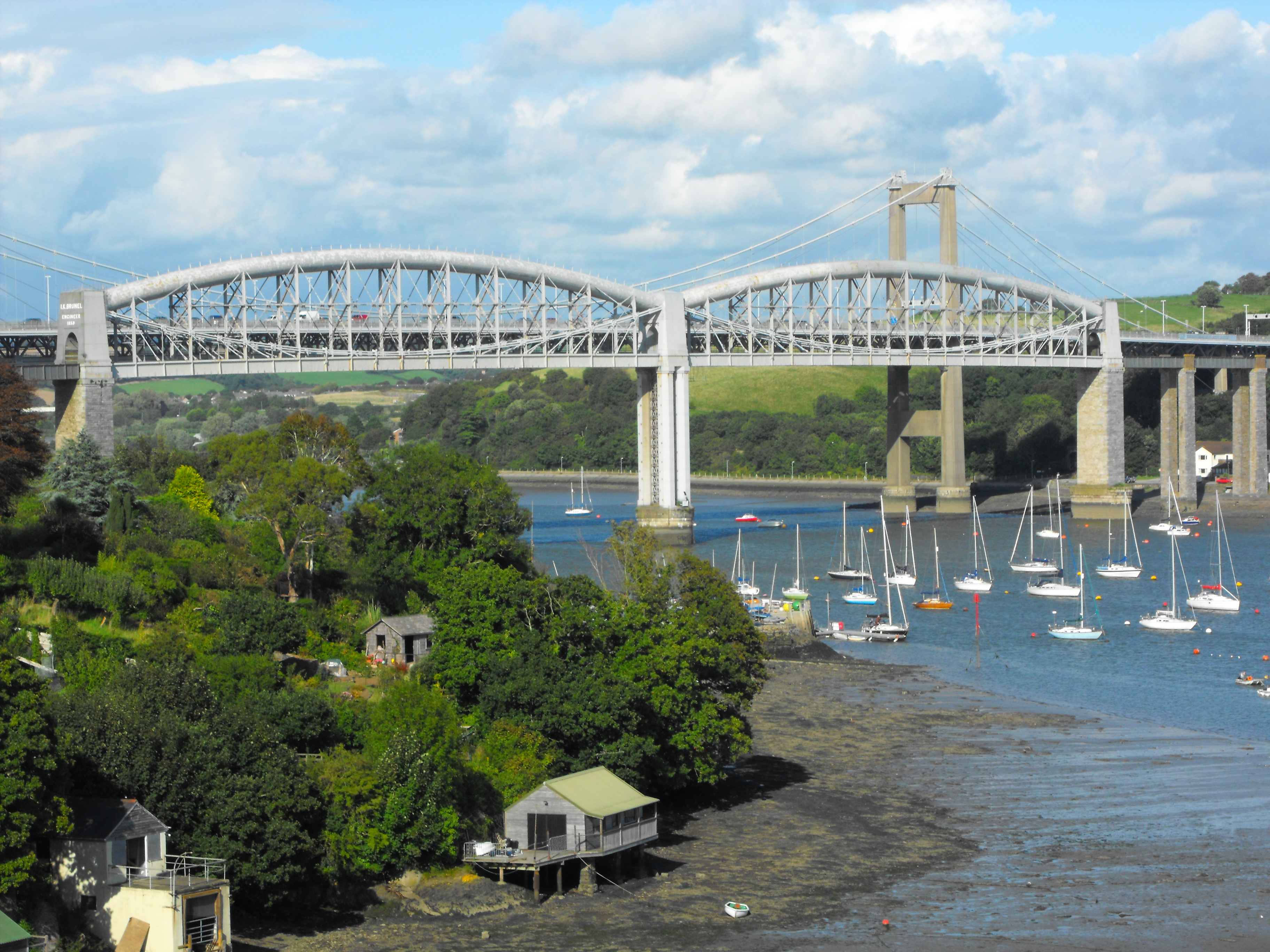 tamar Bridge and Prince Albert Bridge in Plymouth/Saltash